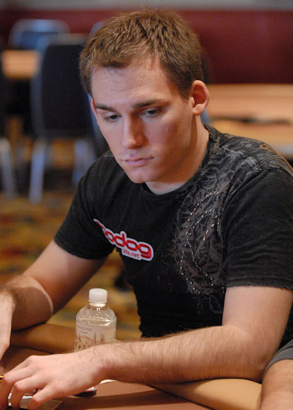 Justin Bonomo at the 2008 Five Diamond World Poker Classic